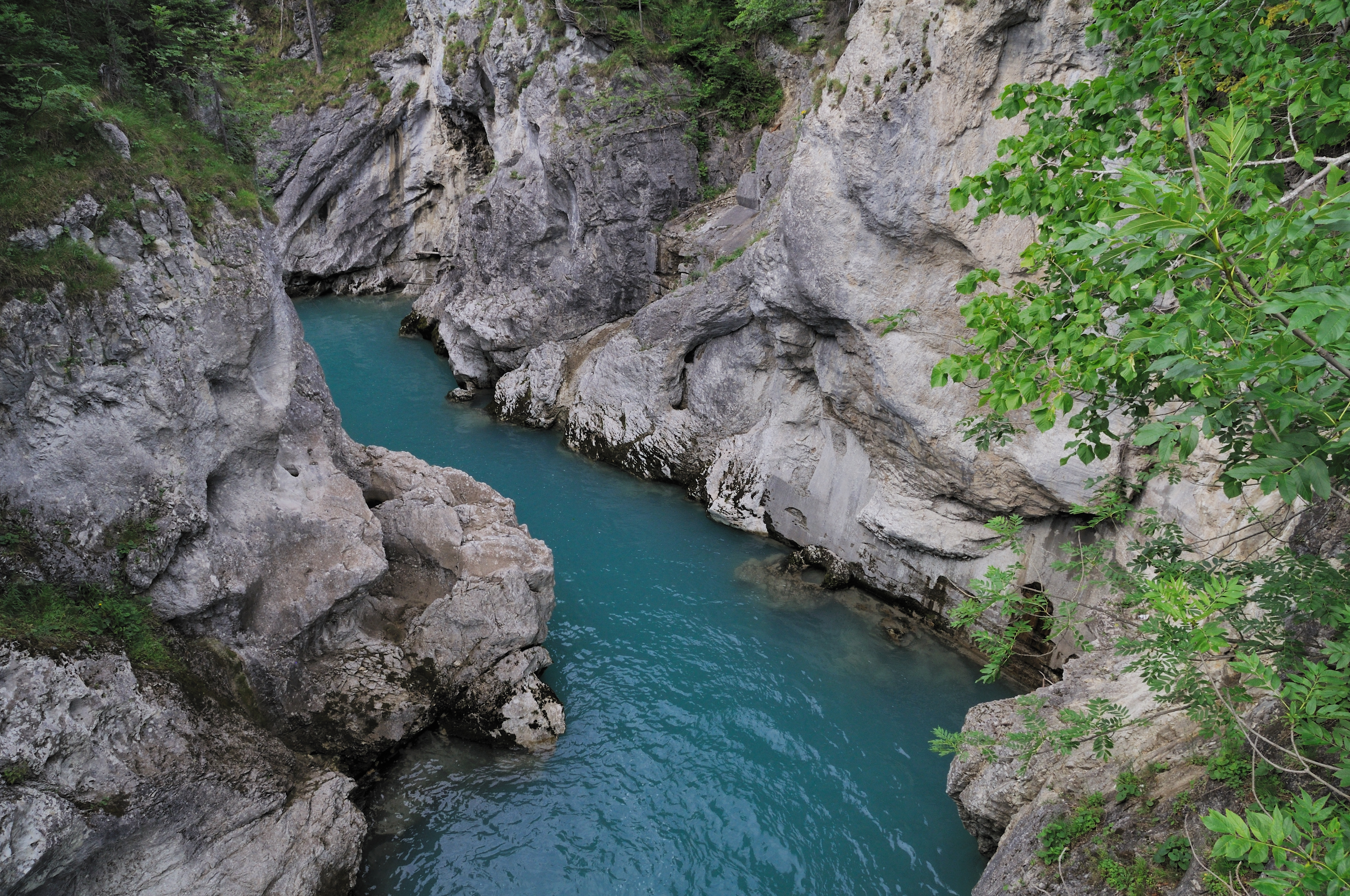 Lech weir Lechfall in Füssen